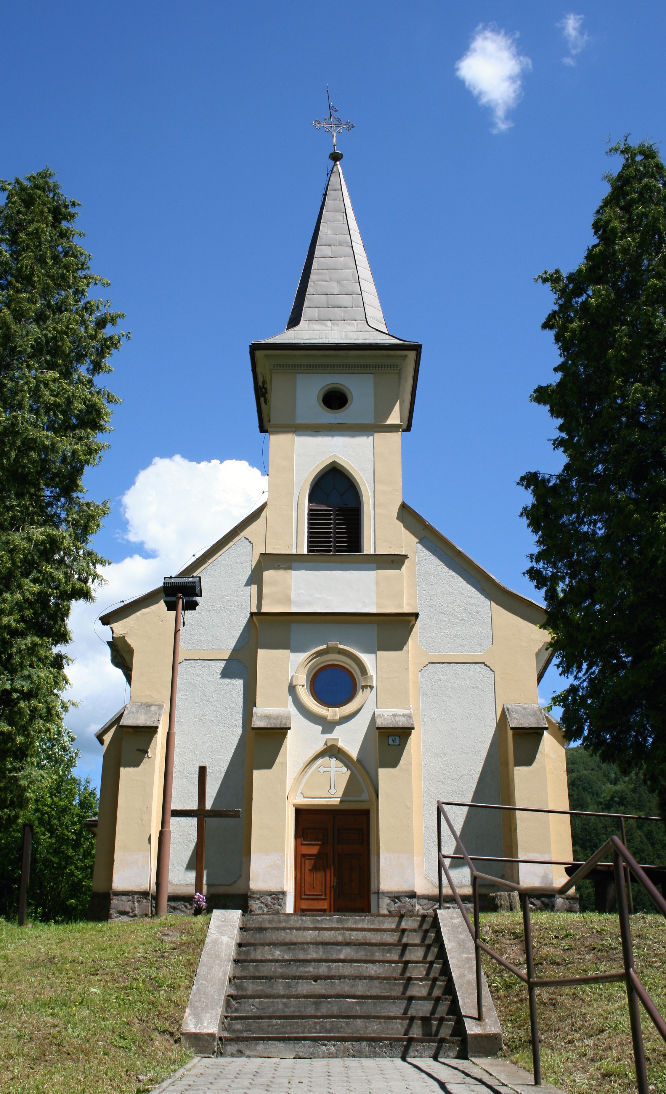 Church in the village of Bystrá, district of Brezno, central Slovakia